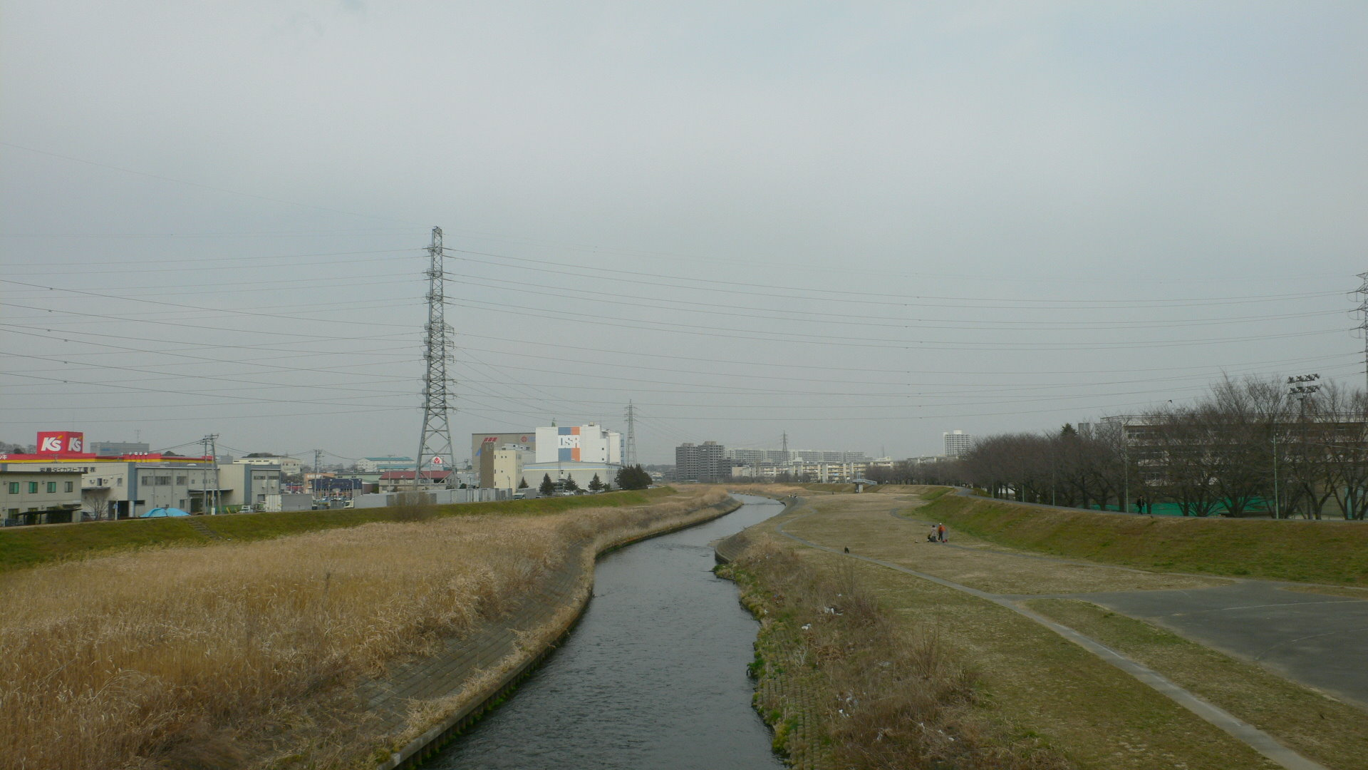 Yanase River (柳瀬川) seeing lower reaches from Fureai Bridge (ふれあい橋)